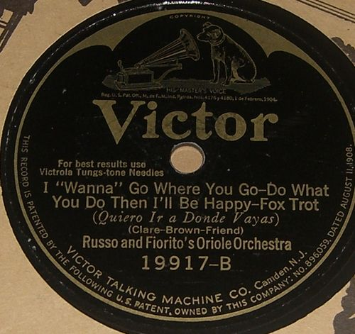 russo fiorito oriole orchestra